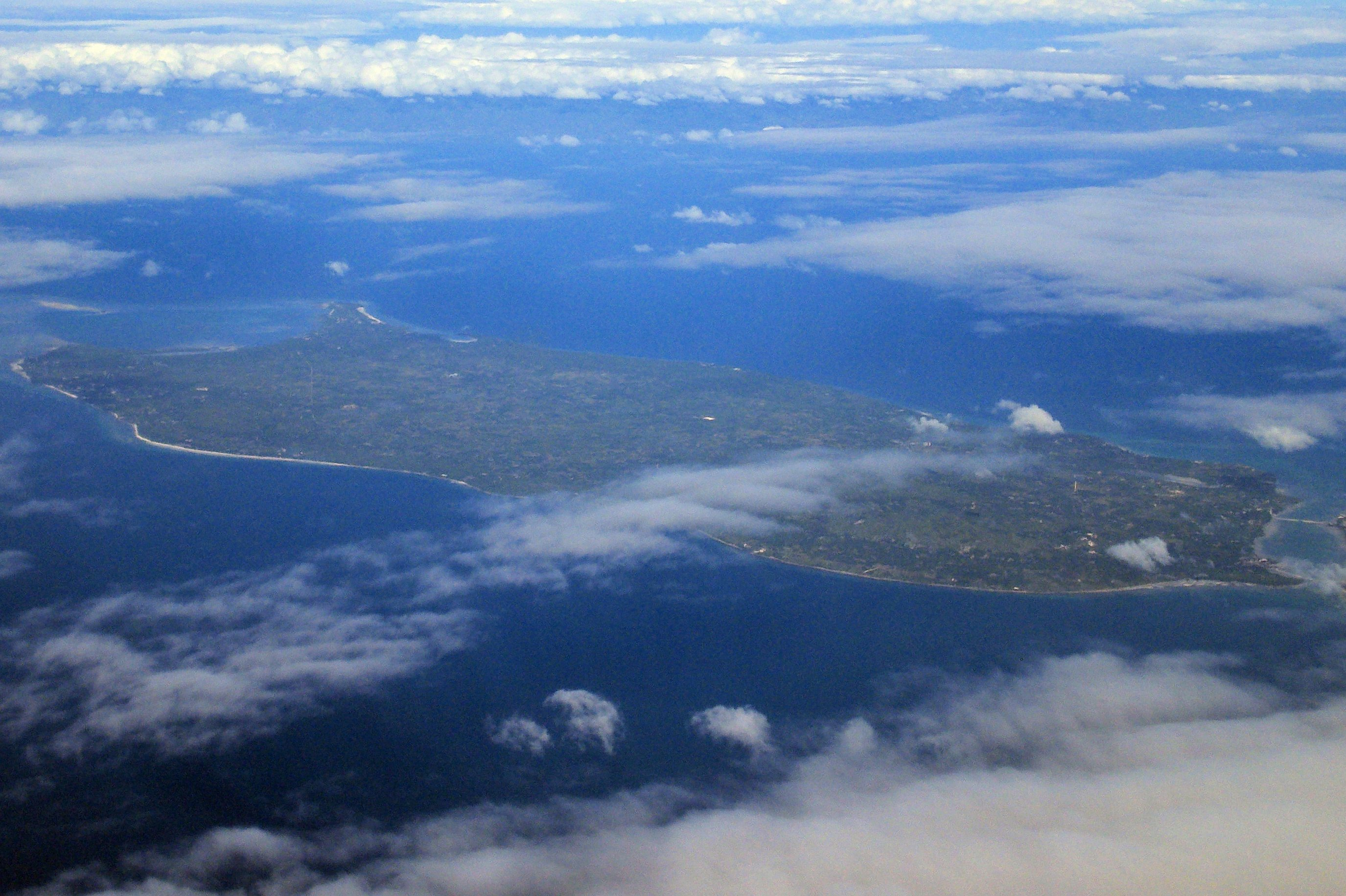 Aerial view of Panglao Island, Philippines